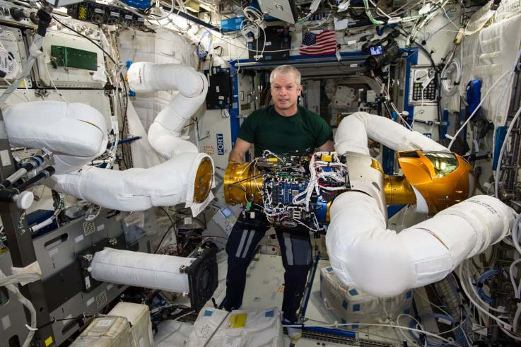 None.